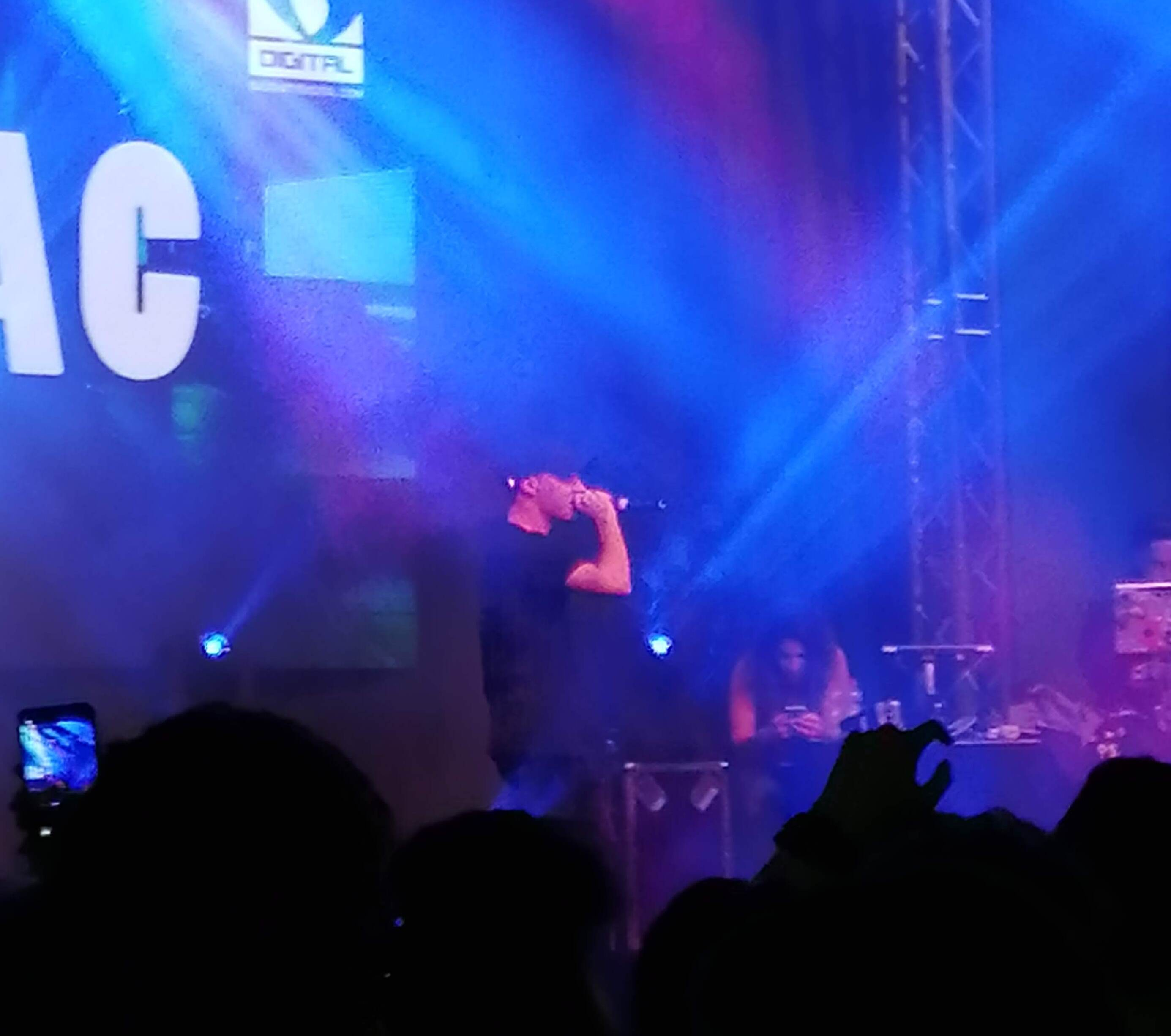 Serbian trap musician Klinac at the Sneakerville festival in Belgrade.